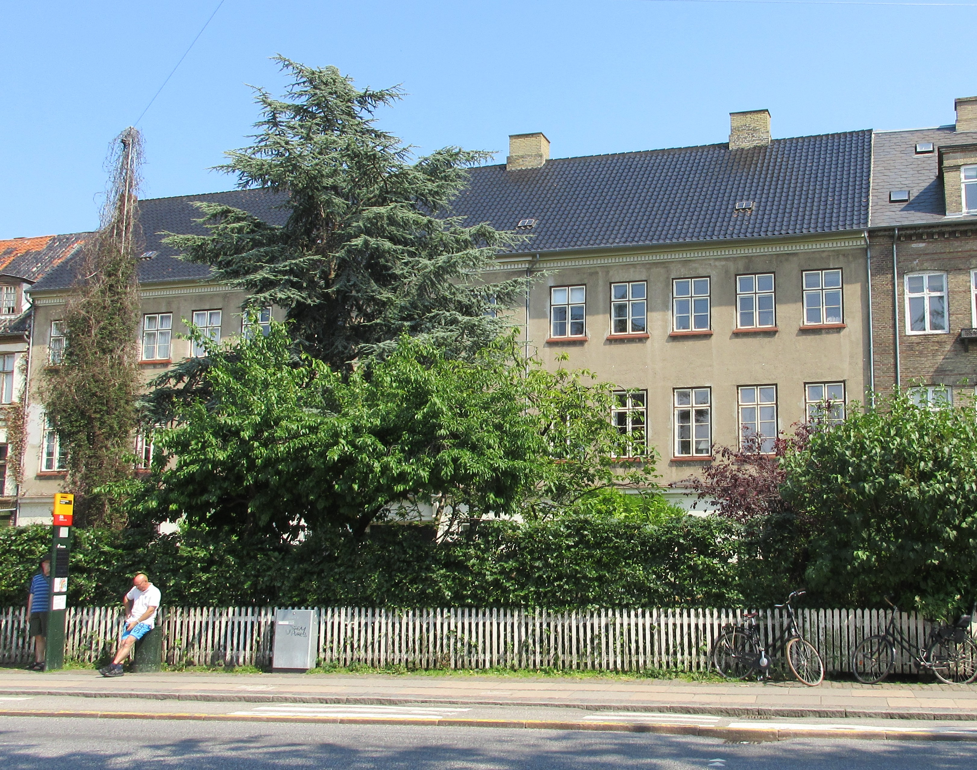 Allégade 6 A in Frederiksberg, Copenhagen, Denmark